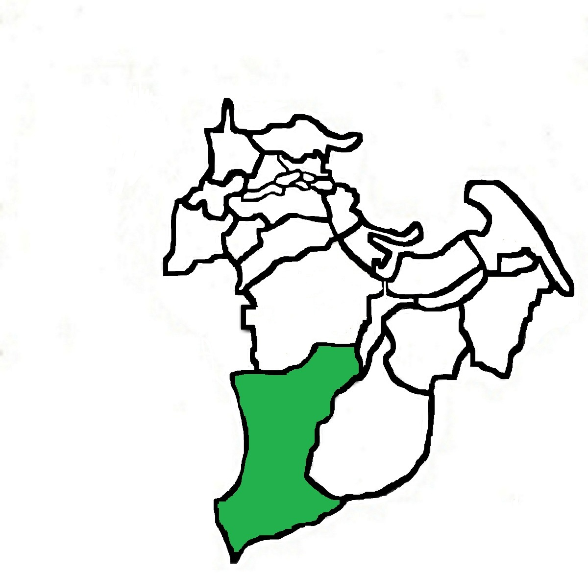 Kushibuchitown Komatsushimacity Tokushimapref range